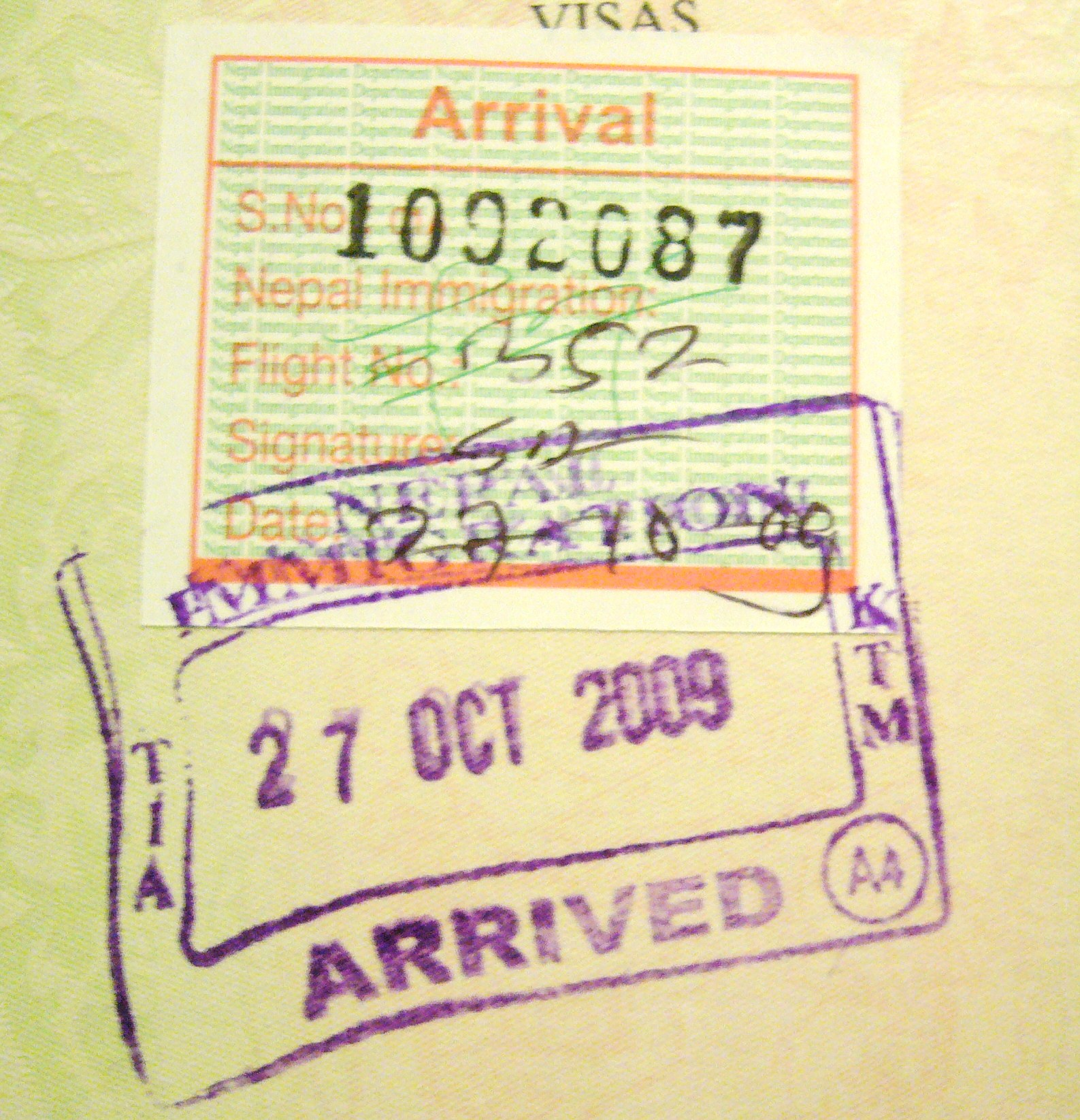 arrival sticker stamps in kathmandu airport